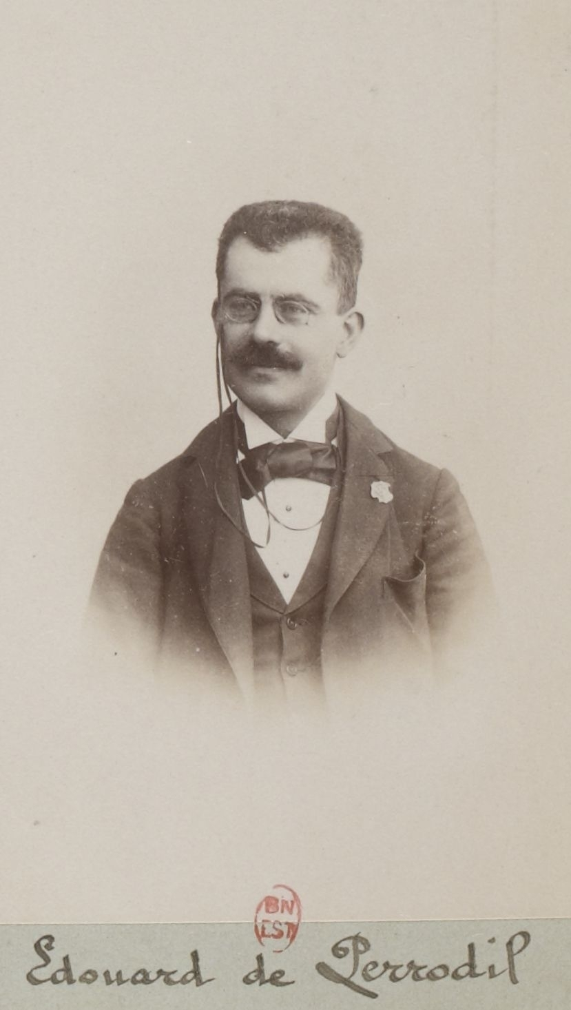 [Collection Jules Beau. Photographie sportive] : T. 5. Années 1897 et 1898 / Jules Beau